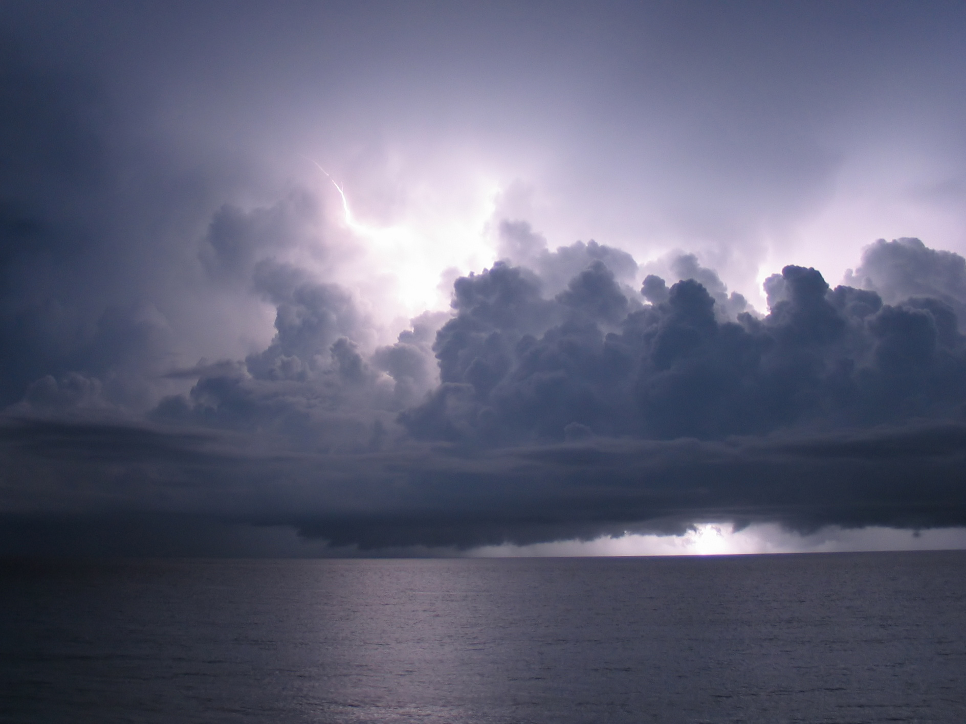 A lightning storm off the coast of Cancun, Mexico.